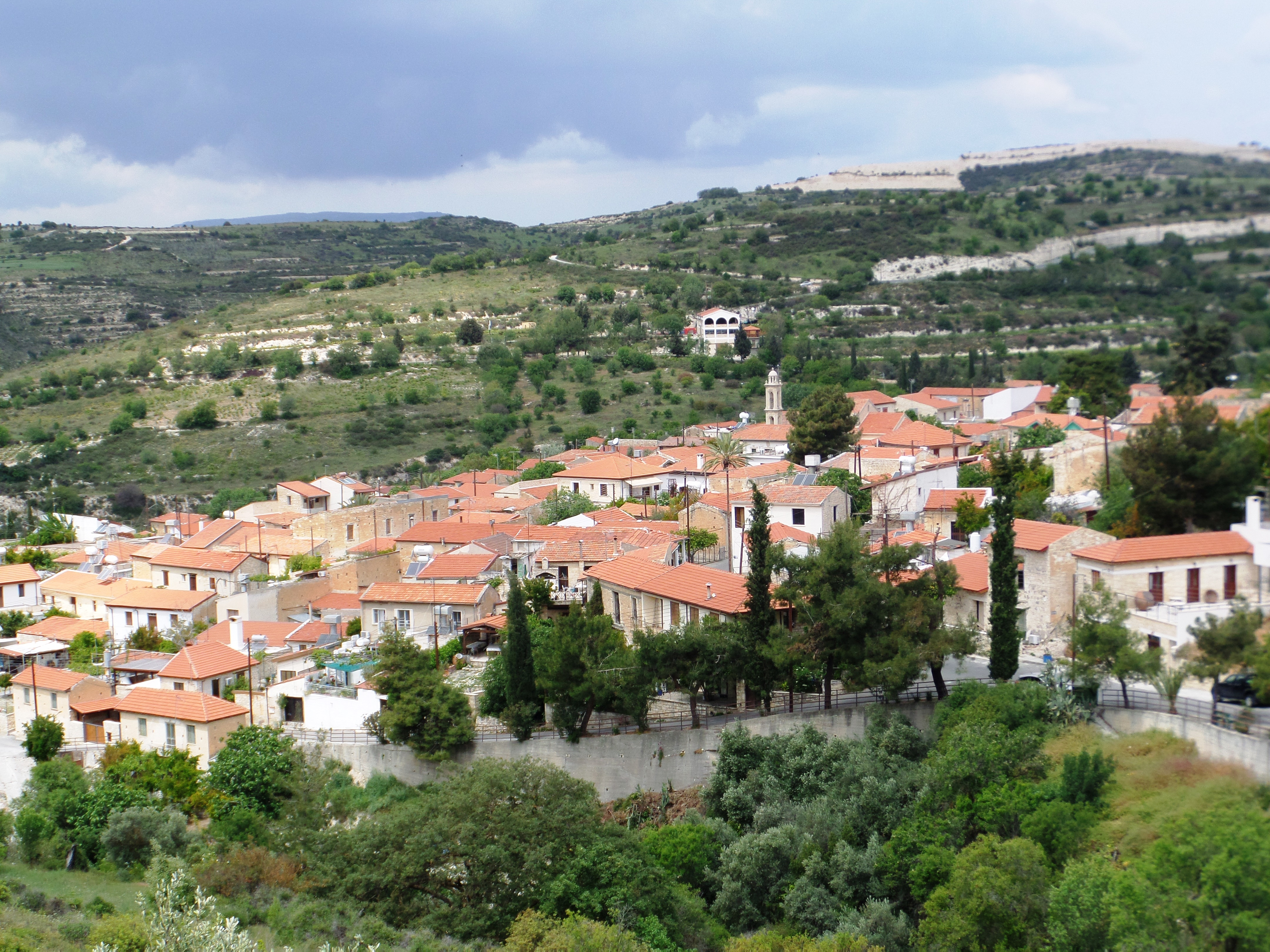 View of Arsos, Limassol.